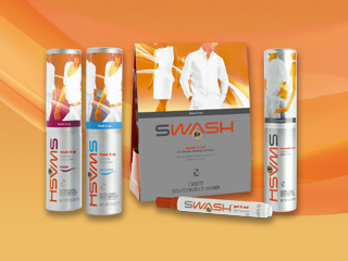 Swash product lineup